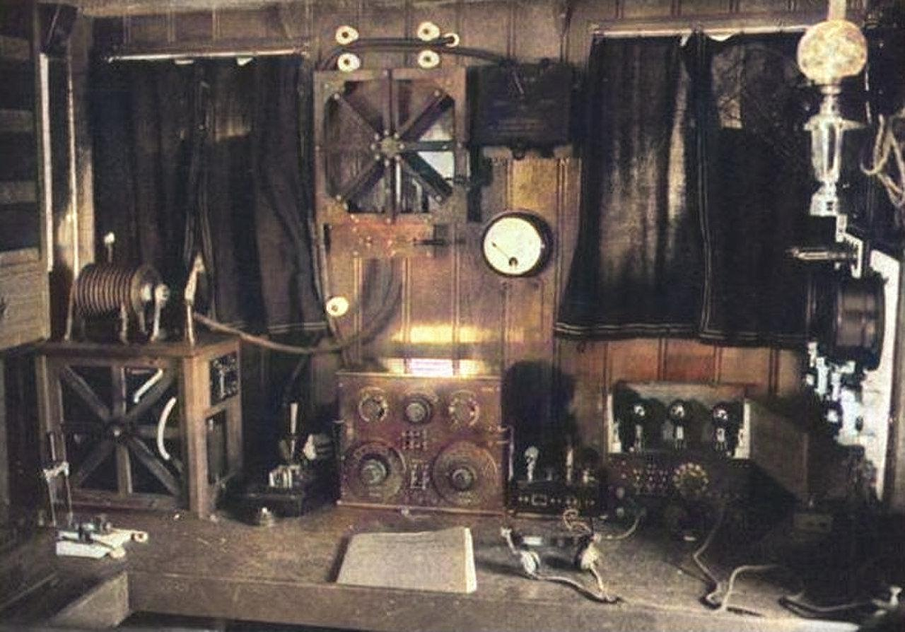 Early radiotelegraph station of a trawler in 1922